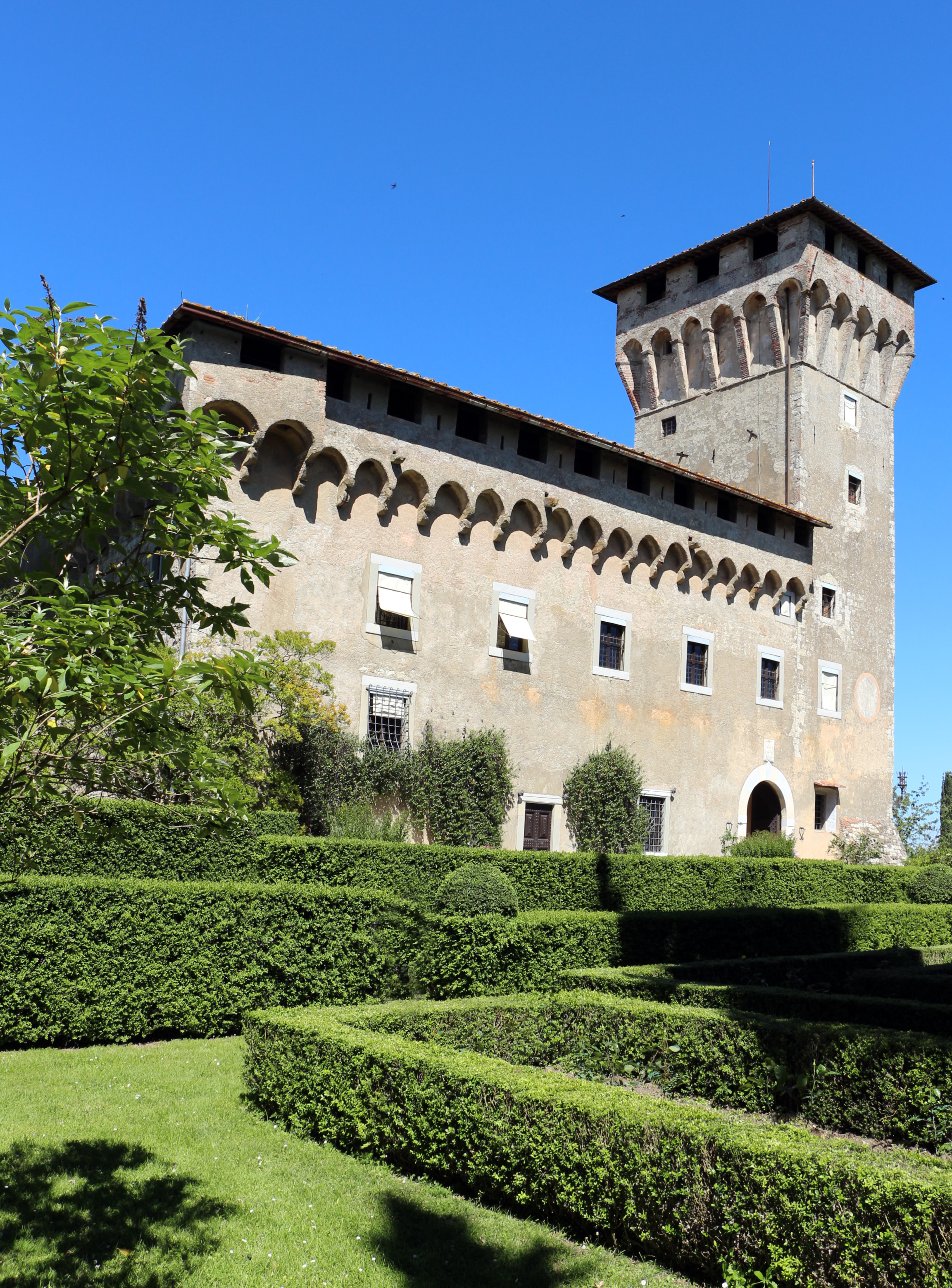 Castello del Trebbio